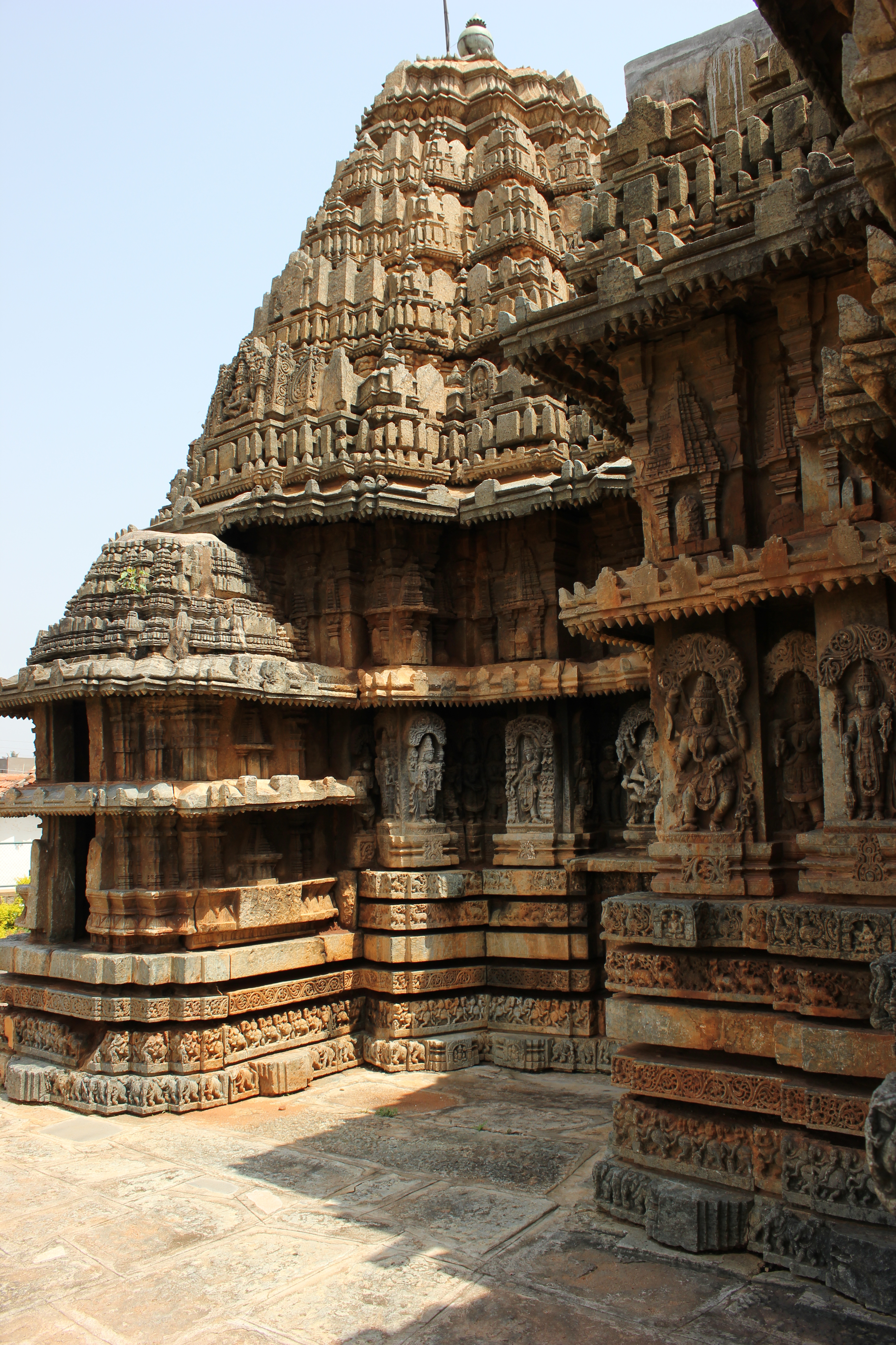 This photograph was taken by me at Haranhalli, Hassan district, Karnataka state, India. The temple, whose main deity is the Hindu god Vishnu, was built in 1235 A.D. by the Hoysala Empire King Vira Someshwara.